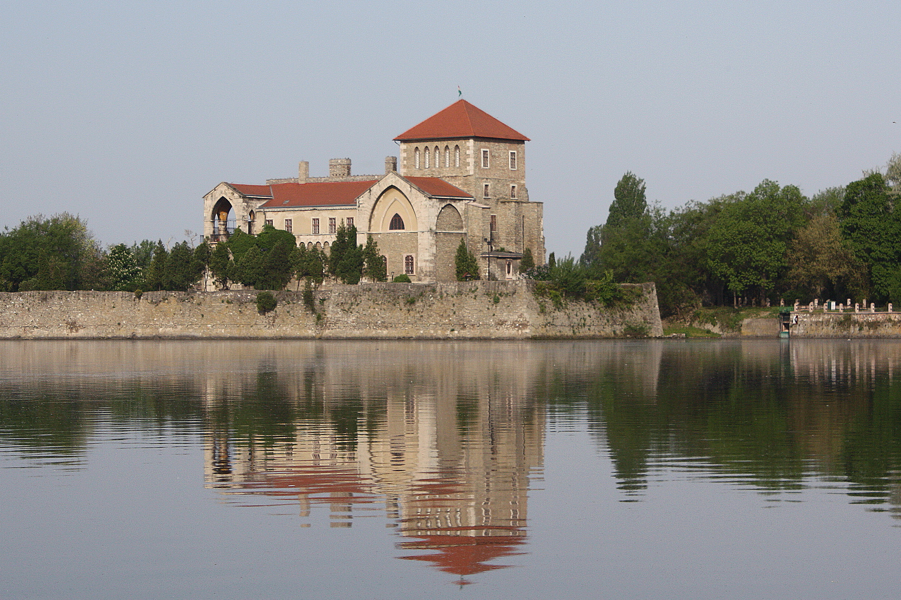 A View of Tata Castle, Hungary